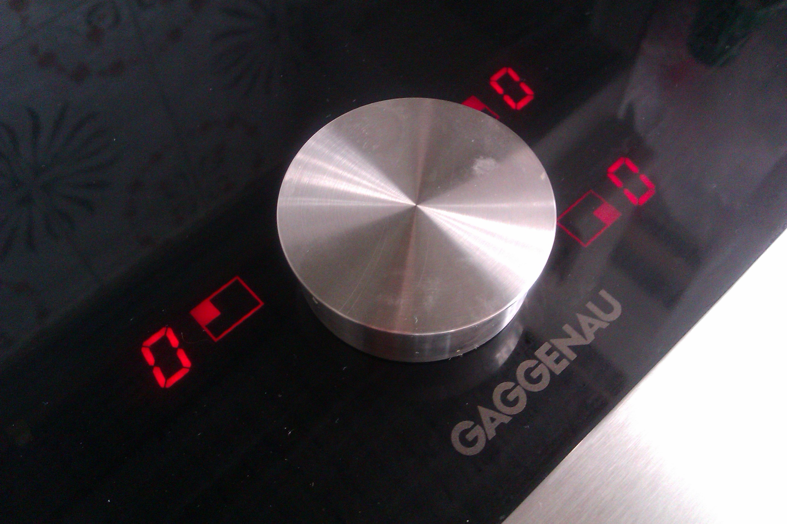 Induction hob